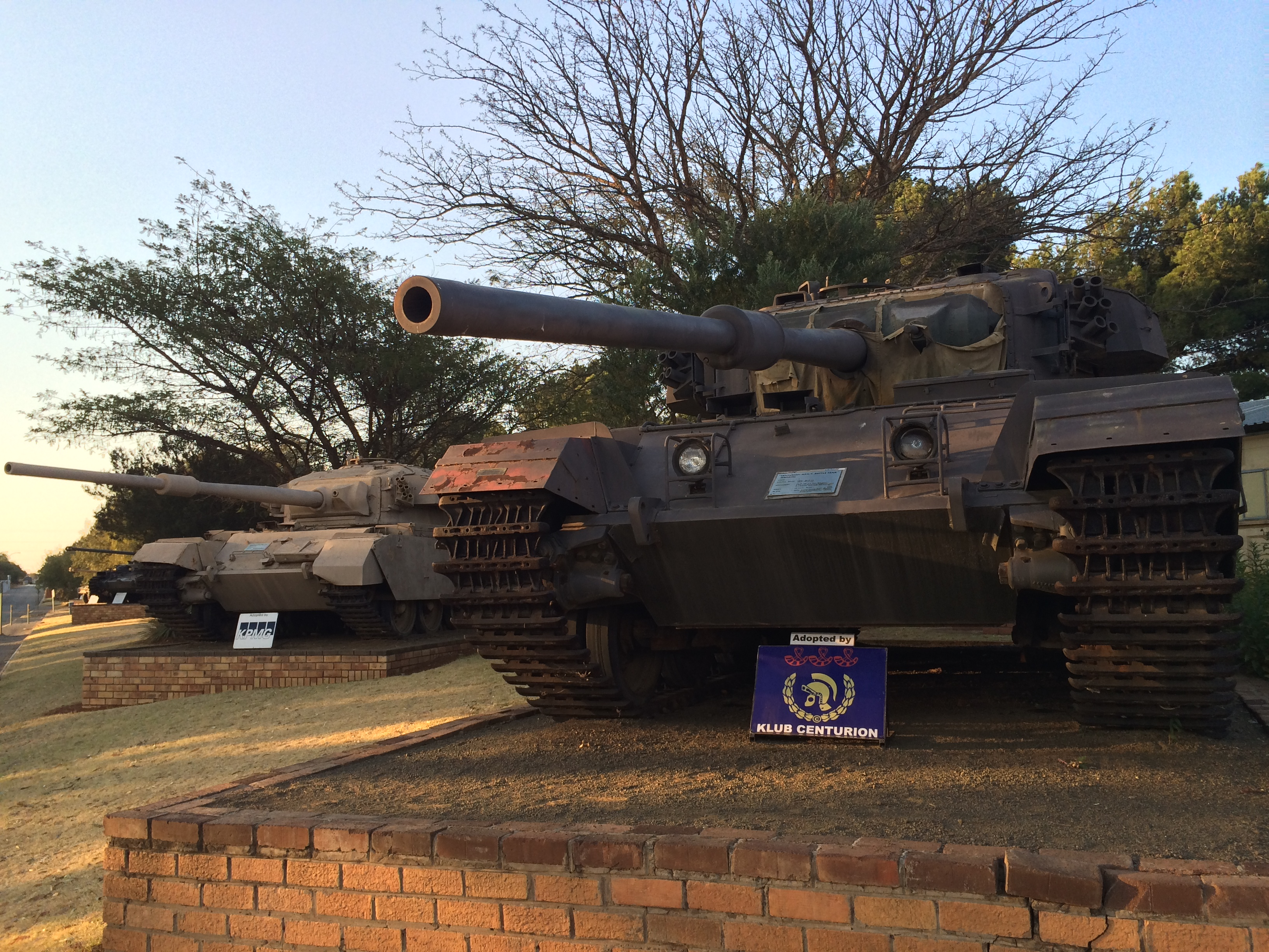 Description: Centurion Mk5 tank at the South African Armour Museum, Bloemfontein. Retired in favour of the Skokiaan (far left), Semel, and later Olifant series of MBTs.